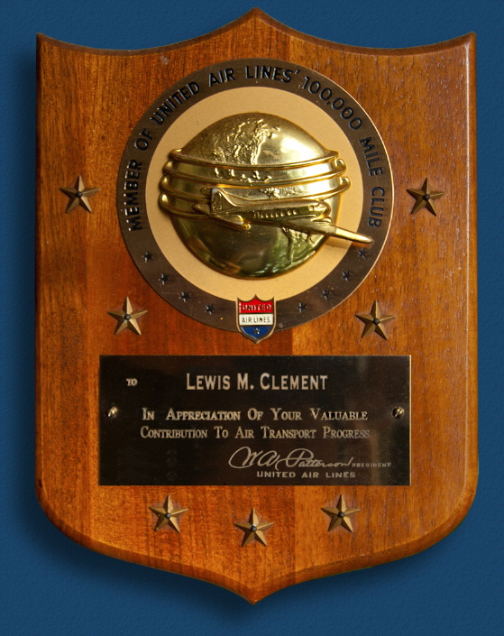 United Air Lines "100,000 Mile Club" Member Award Plaque (with 7 stars for additional awards). c1950 Made by: A.C. Rehberger Co, Chicago, ILL, 8 1/2" X 6 1/4" The plaque's sculpted cast medallion represents a UAL DC-3 circling the earth four times which roughly equals 100,000 air miles. (The circumference of the earth at the equator is 24,901 miles). Each of the seven stars on the plaque represents an additional award. The engraved signature is that of William A. "Pat" Patterson, the President of United Air Lines from 1934 to 1966. For a passenger to achieve 100,000 flight miles on UAL in the 1950s was a rare accomplishment compared to now as UAL was then still an exclusively domestic US carrier (it did not gain its first overseas route until 1983) with a relatively limited route system, air fares were still heavily regulated by the CAB and thus not discounted and quite expensive compared to other modes of commercial travel, and a very large percentage of intercity passenger traffic was still carried by rail and bus.